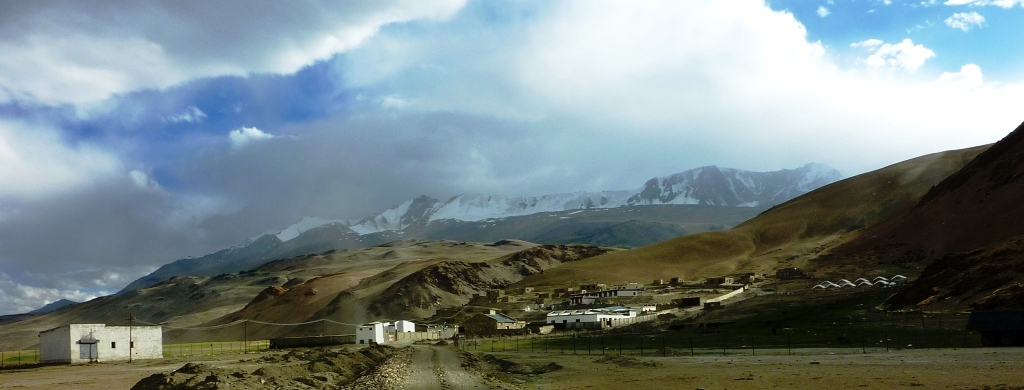 I took this photo on a visit in 2010